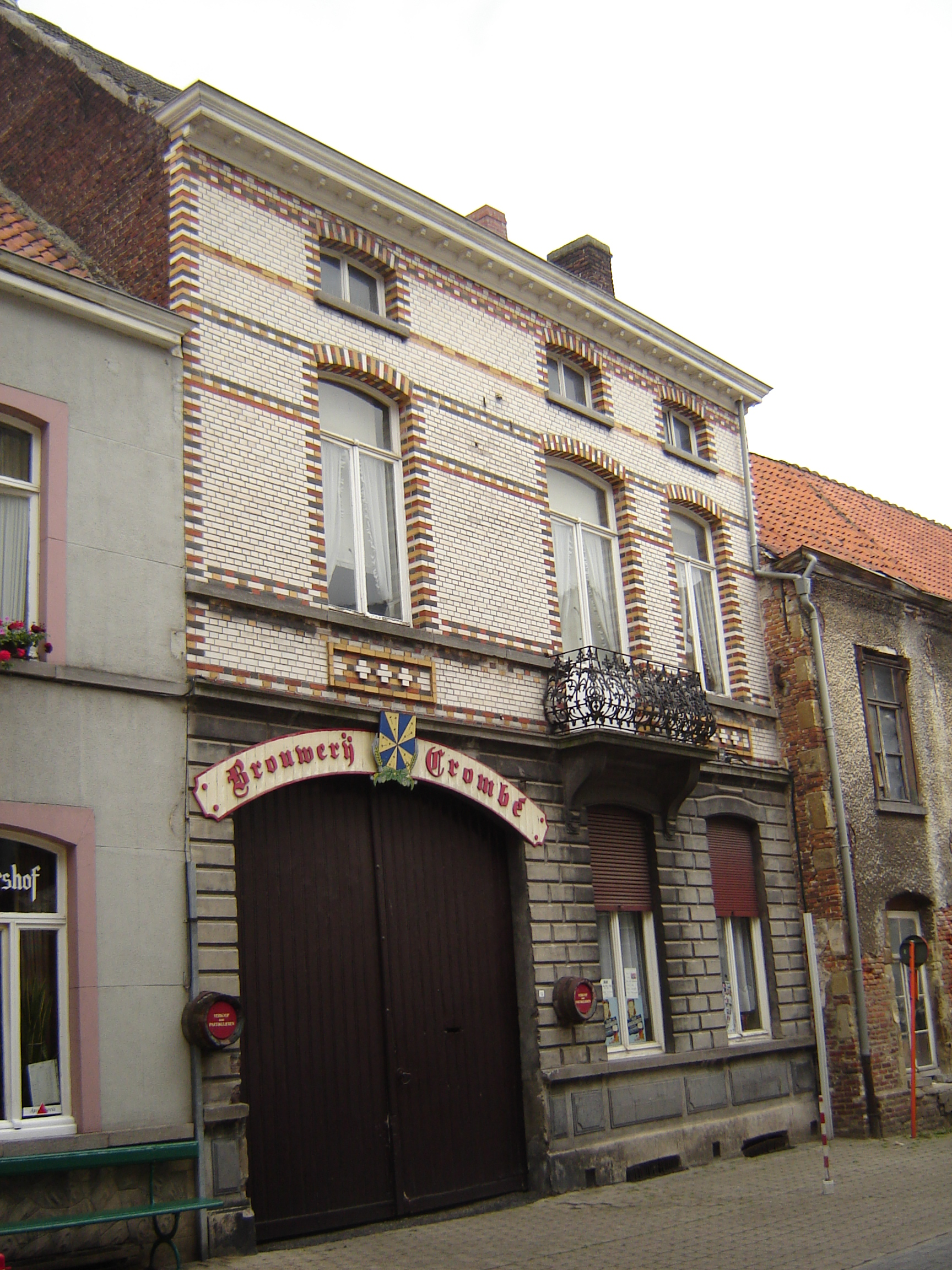 Brewery "Brouwerij Crombé" in Zottegem, East Flanders, Belgium.